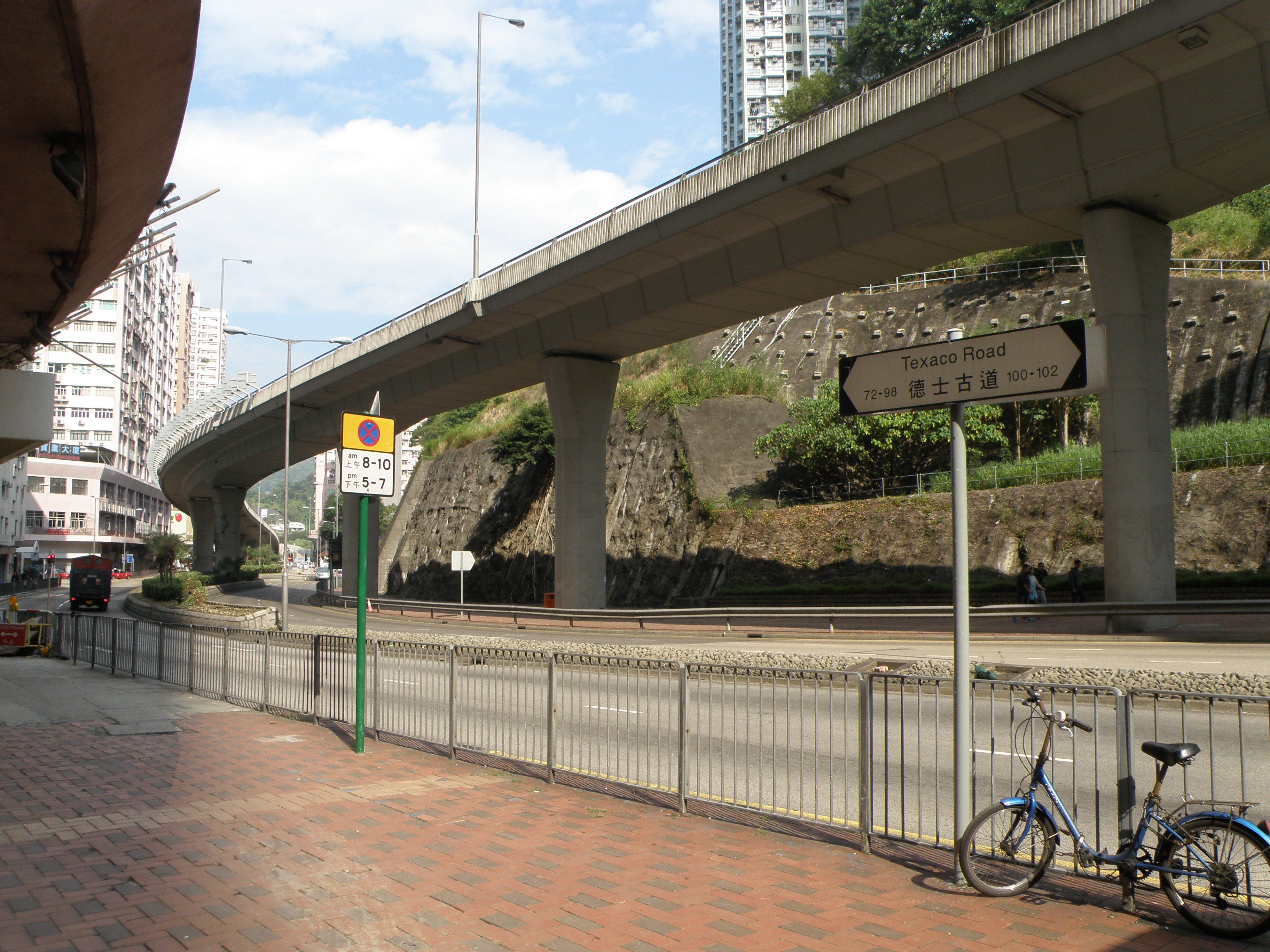 Texaco Road in Tsuen Wan, Hong Kong.